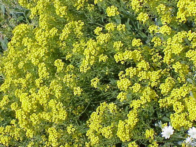 Species: Alyssum saxatile Family: Brassicaceae Image No. 3